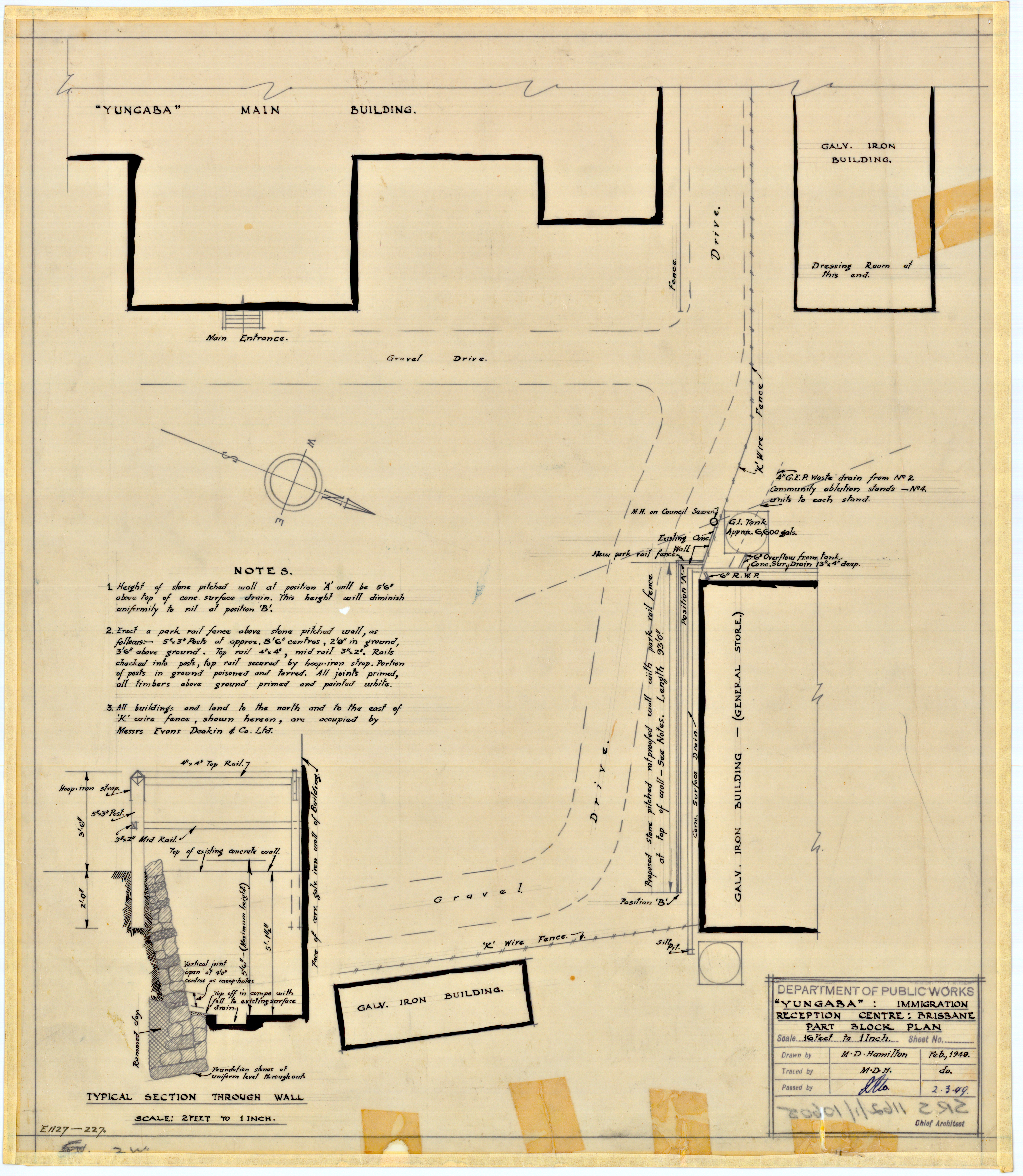 Yungaba Immigration Reception Centre, Brisbane, Part Block Plan, 2 March 1949